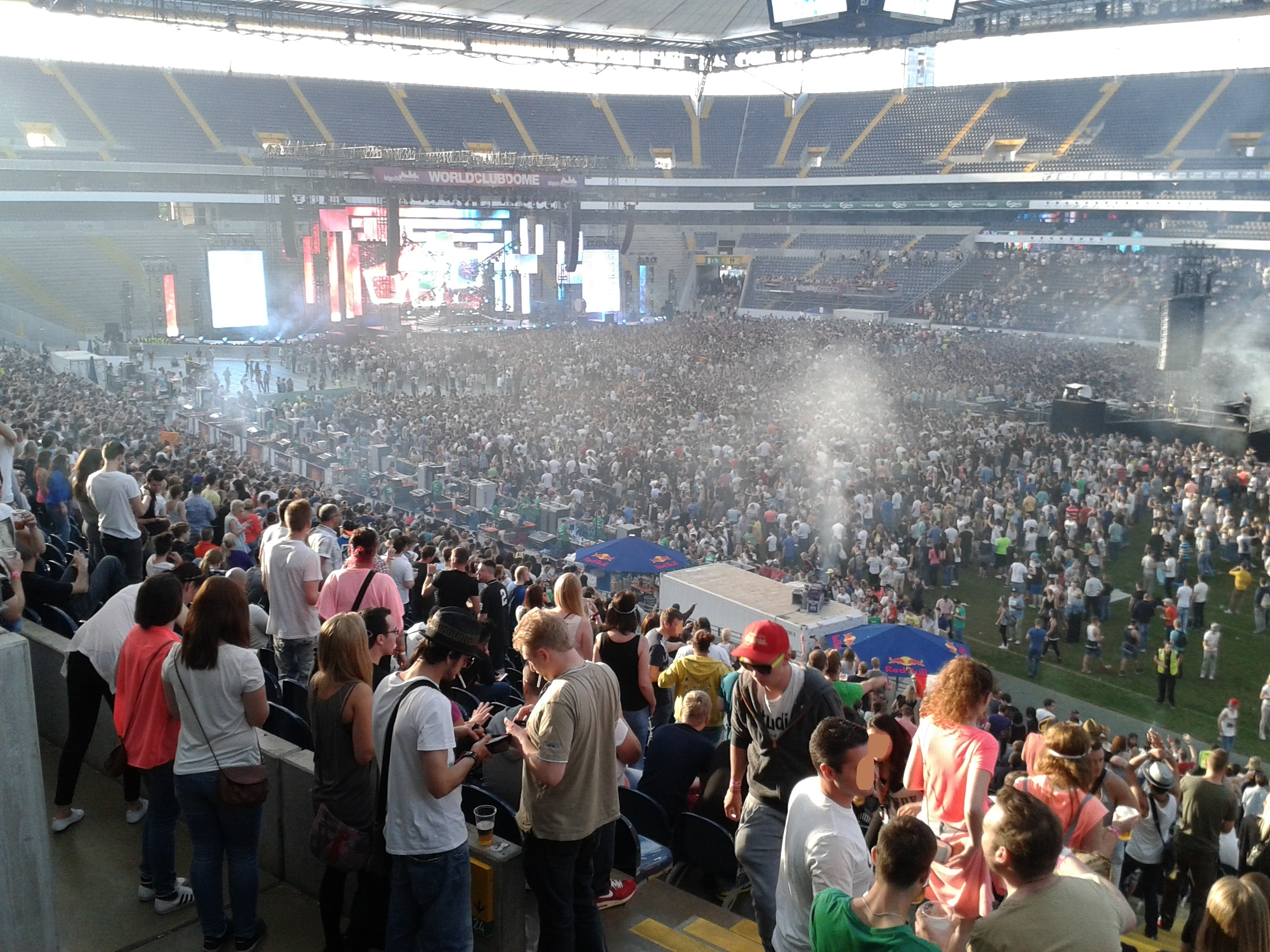 2014 BigCityBeats World Club Dome in Frankfurt (Main).